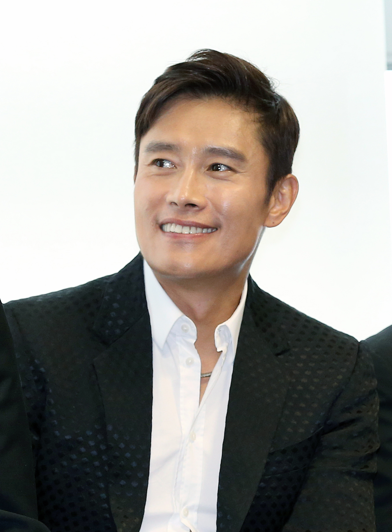 Actor Lee Byung-hun APSA(Asia Pacific Screen Awards) June 3, 2014 Australian Embassy, Seoul Related Article Cheong Wa Dae ‘I will strive to become a world-class actor’: Lee Byung-hun -English- ‘I will strive to become a world-class actor’: Lee Byung-hun -中文- 李秉宪：我会努力成为世界级的明星 -日本語- イ・ビョンホン「世界的な俳優を目指して頑張ります」 Ministry of Culture, Sports and Tourism Korean Culture and Information Service ( Official Photographer: Jeon Han This official Republic of Korea photograph is CC-BY-SA-2.0-licensed, so while restrictions such as personality or privacy rights may apply, in general, manipulations are allowed. If you require a photograph without a watermark, please use Flickr e-mail. 이병헌 2013 아시아 태평양 스크린 어워즈 남우주연상 수상 2014-06-03 호주대사관 호주센터, 광화문 문화체육관광부 해외문화홍보원 코리아넷 전한